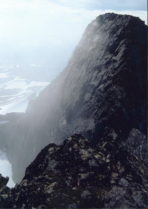 Main summit of Akka from the northern summit